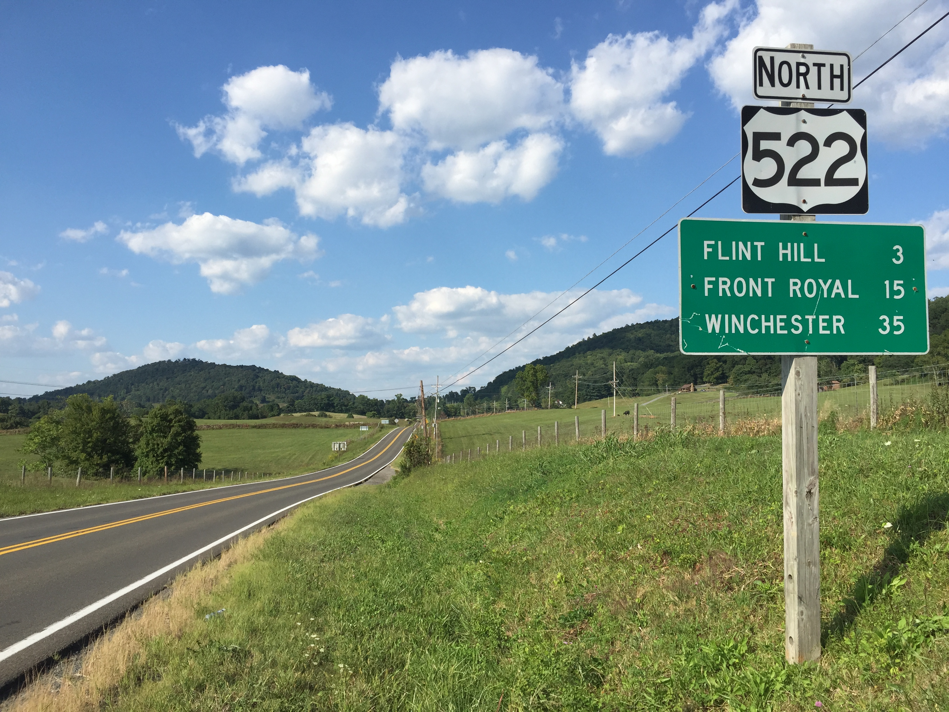 View north along U.S. Route 522 (Zachary Taylor Highway) at U.S. Route 211 (Lee Highway) in Massies Corner, Rappahannock County, Virginia